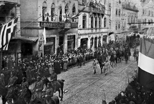 Allied occupation troops marching at the Istiklal Avenue